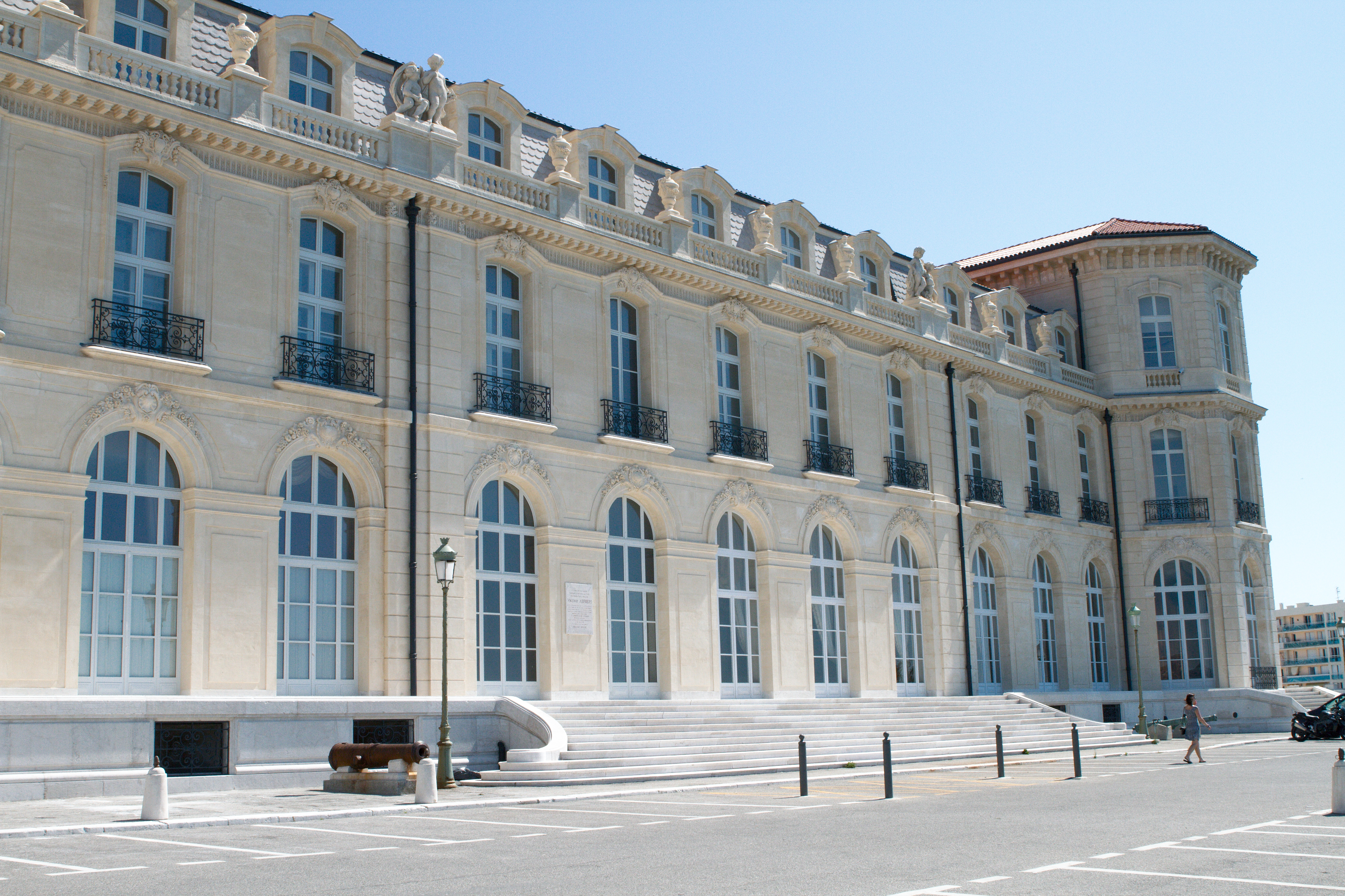 Courtyard facade of the Pharo Palace. Marseille, Bouches-du-Rhône (France).